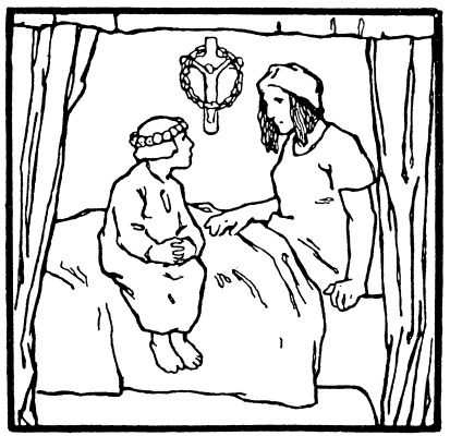 Illustration by Otto Ubbelohde to the fairy tale The Shroud